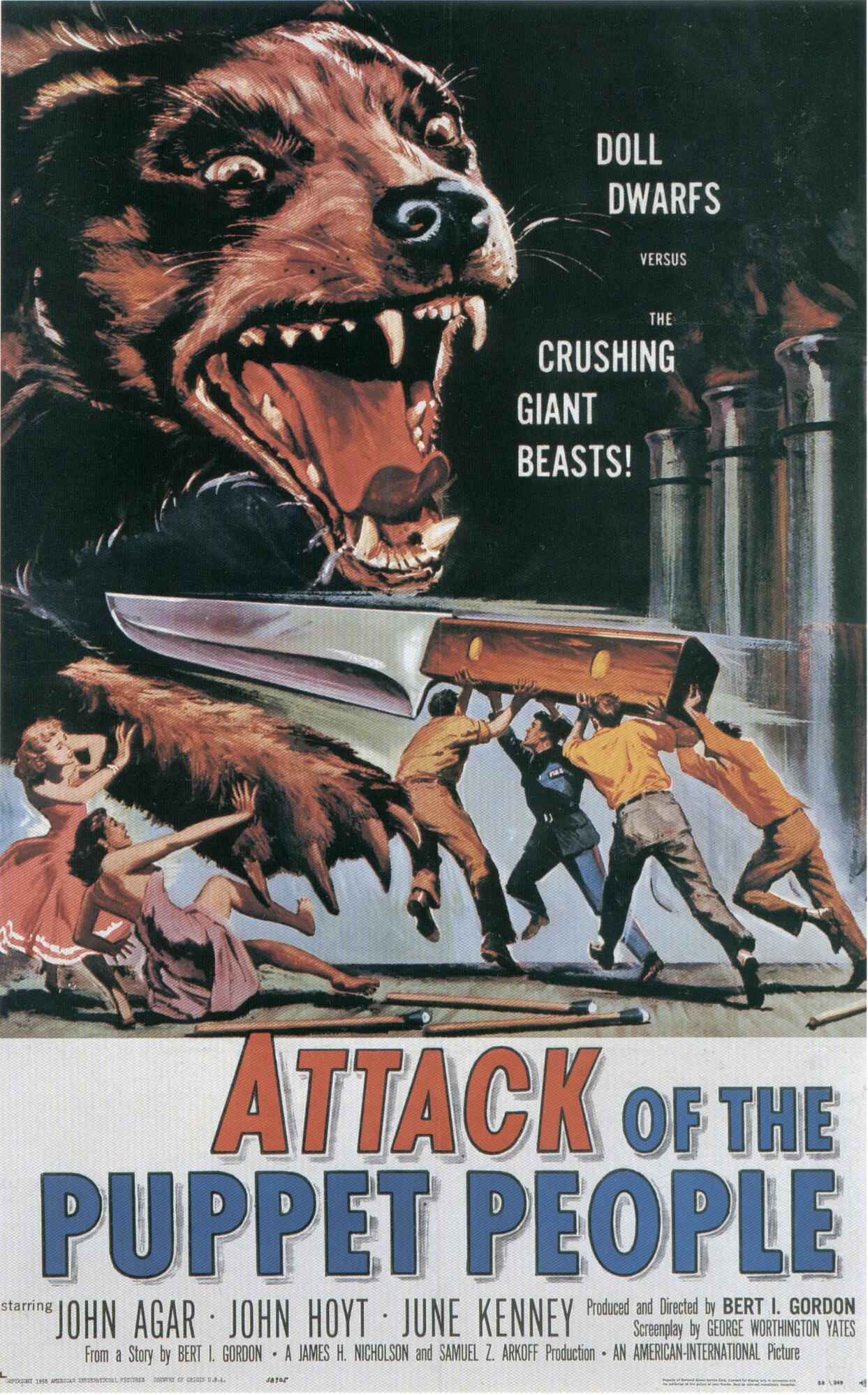 Advertising poster for the film Attack of the Puppet People (1958)